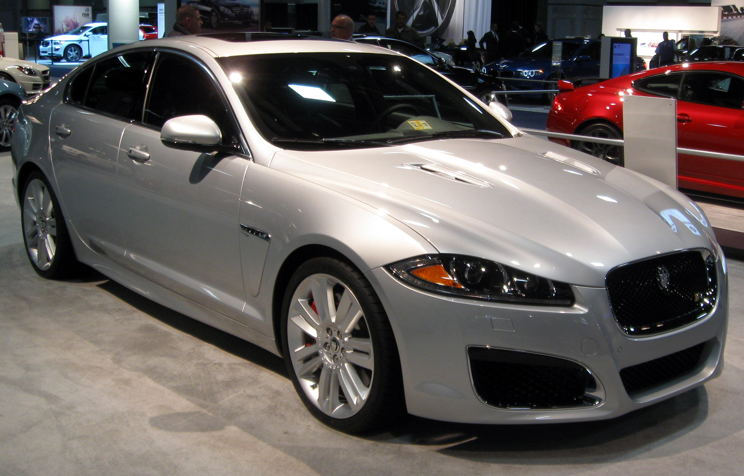 2012 Jaguar XF-R photographed in Washington, D.C., USA.